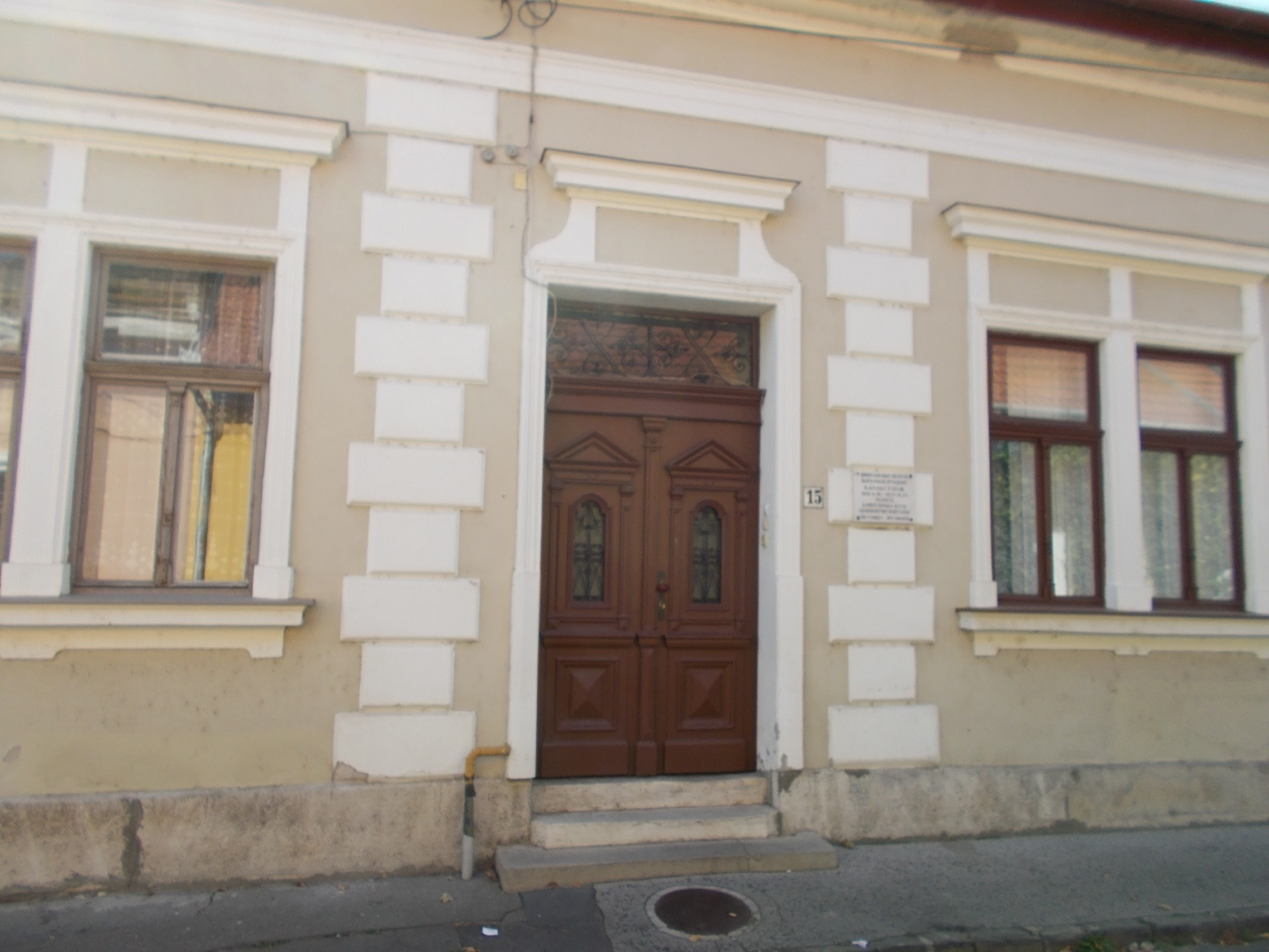 Neoclassical house. Listed. - 15 Katona Lajos Street, Vác, Pest County, Hungary.